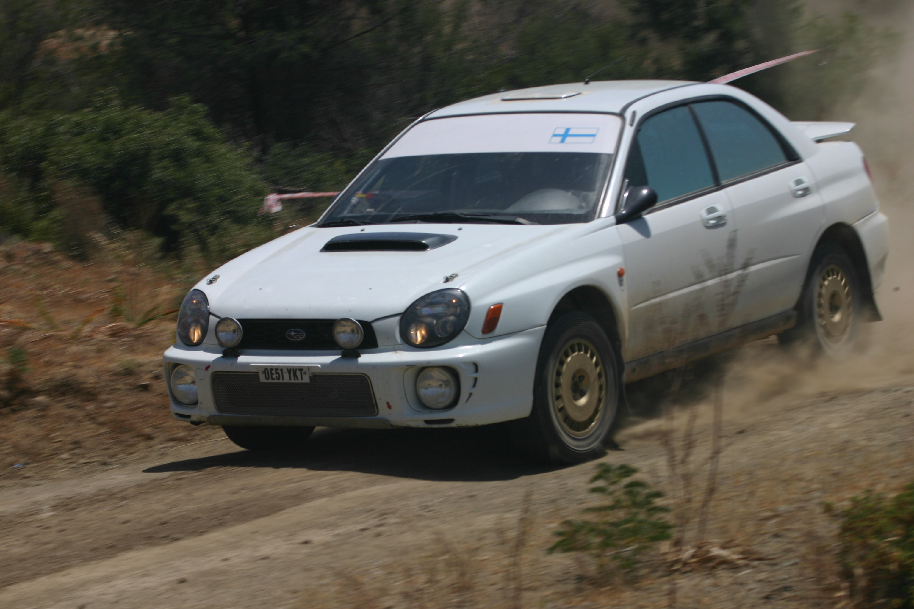 Subaru Impreza WRX STi N8 at the 2004 Cyprus Rally.